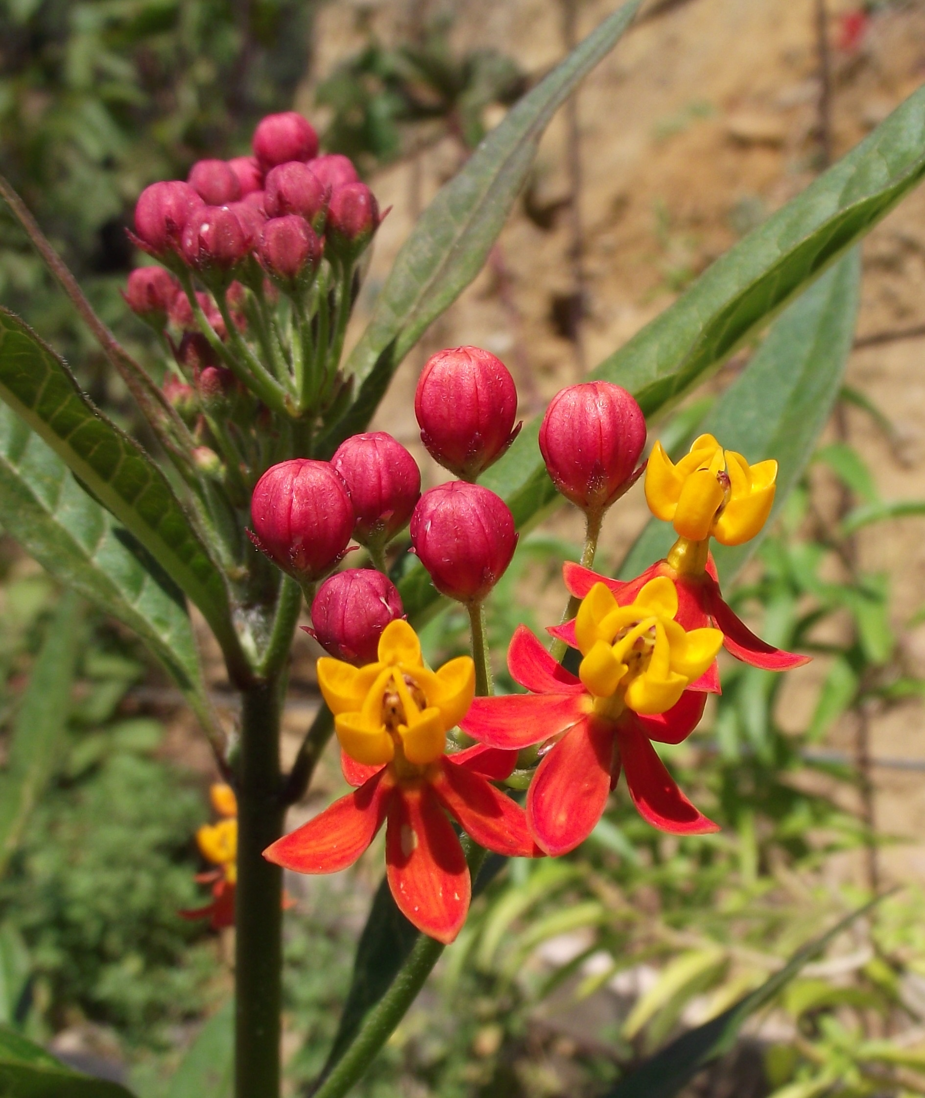 Asclepias tuberosa at City Farmers Nursery, San Diego, California, USA.